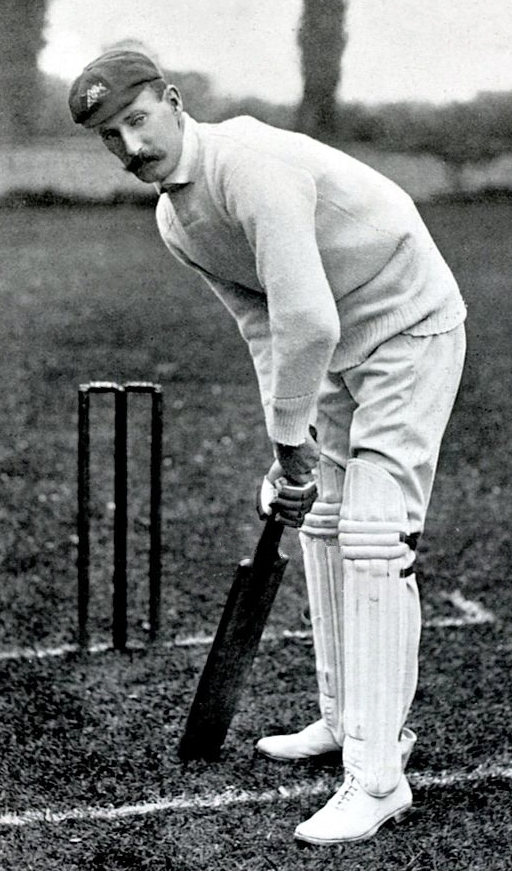 Sport, Cricket, Circa 1900, Charles Edward McLeod, Victoria, (1893-1904) and Australia, (1894-1905), He was a useful performer on tours to England but did not achieve anything outstanding